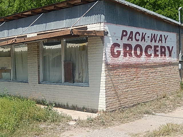 I took photo with Nikon camera of closed Pack-Way Grocery in Normandy, TX, off U.S. Hwy. 277.